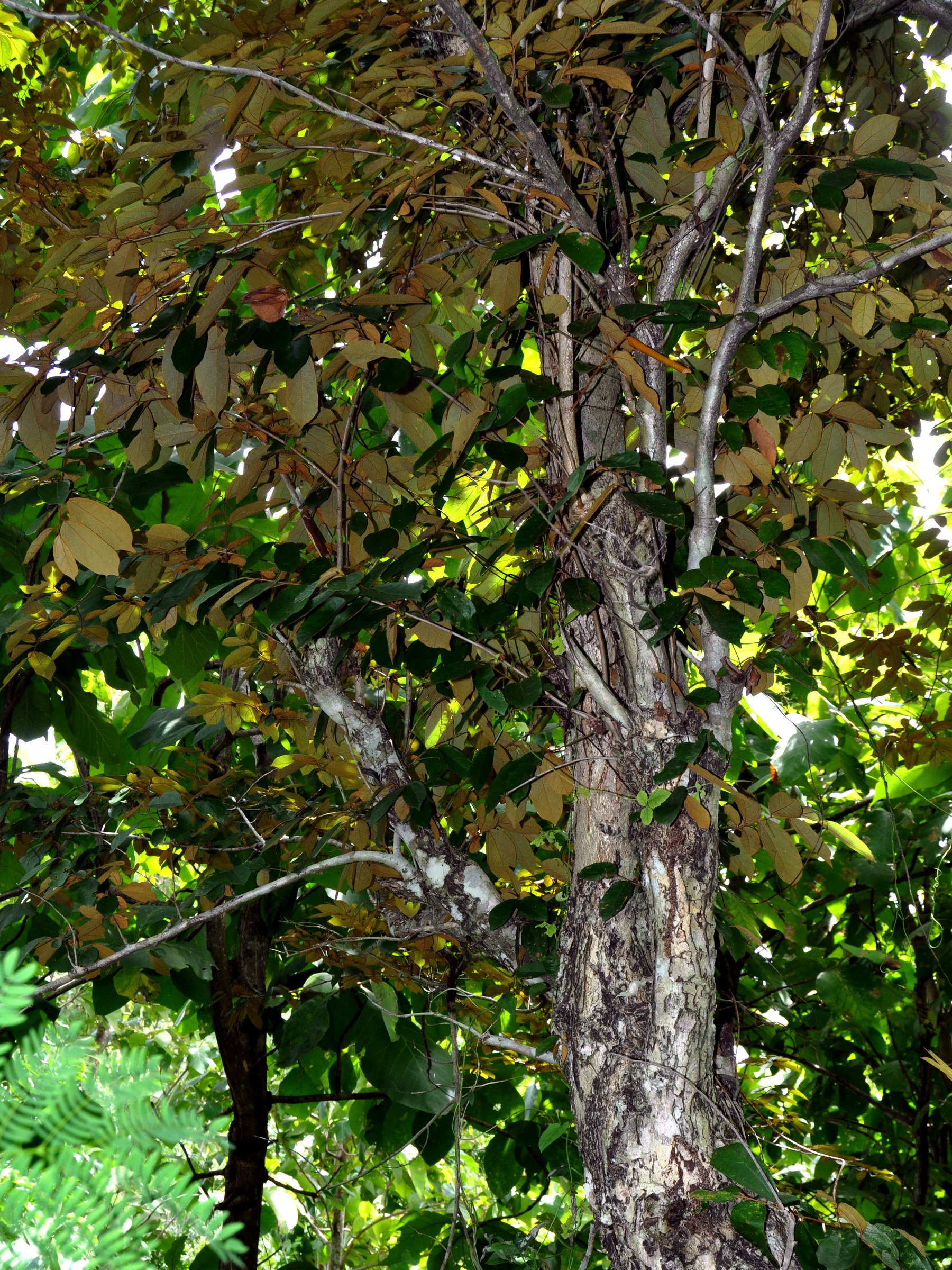 Schoutenia ovata. From Ngawi, East Java, Indonesia.